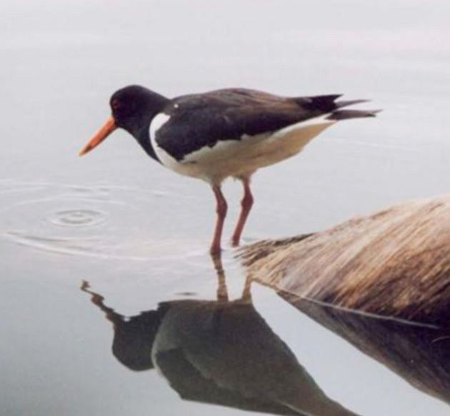 Oystercatcher (Haematopus ostralegus) pecking the water